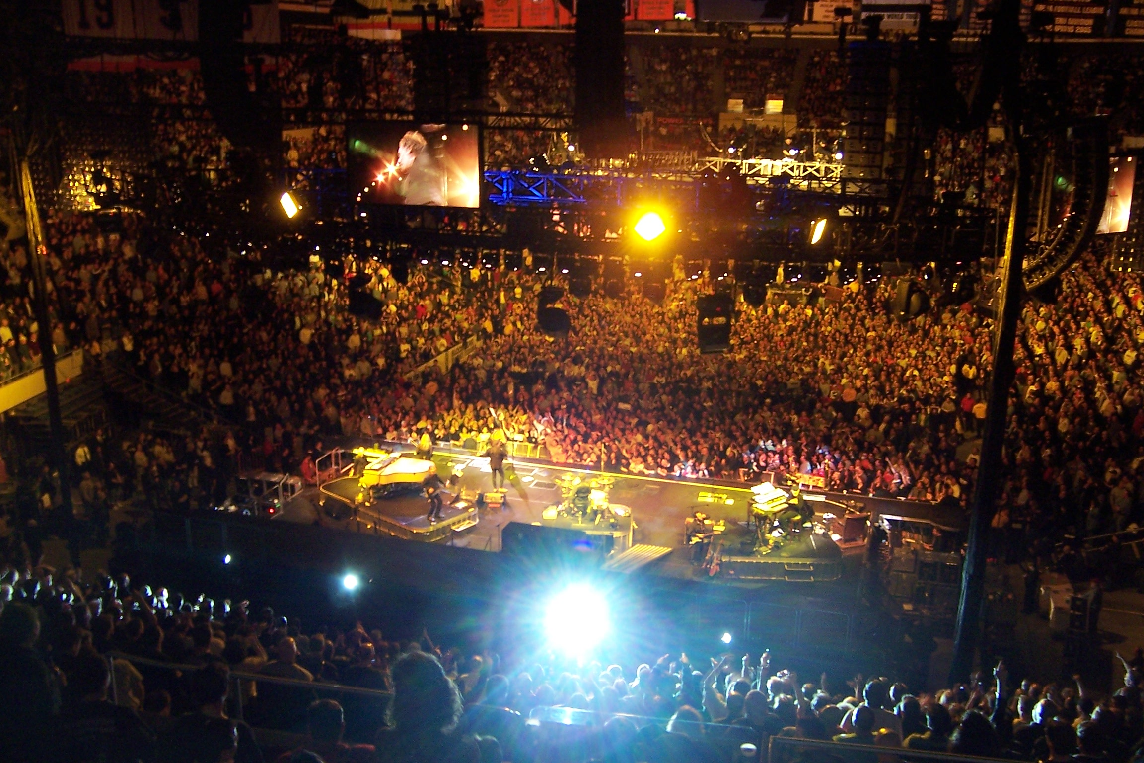 Bruce Springsteen and E Street Band performing "Living' in the Future"